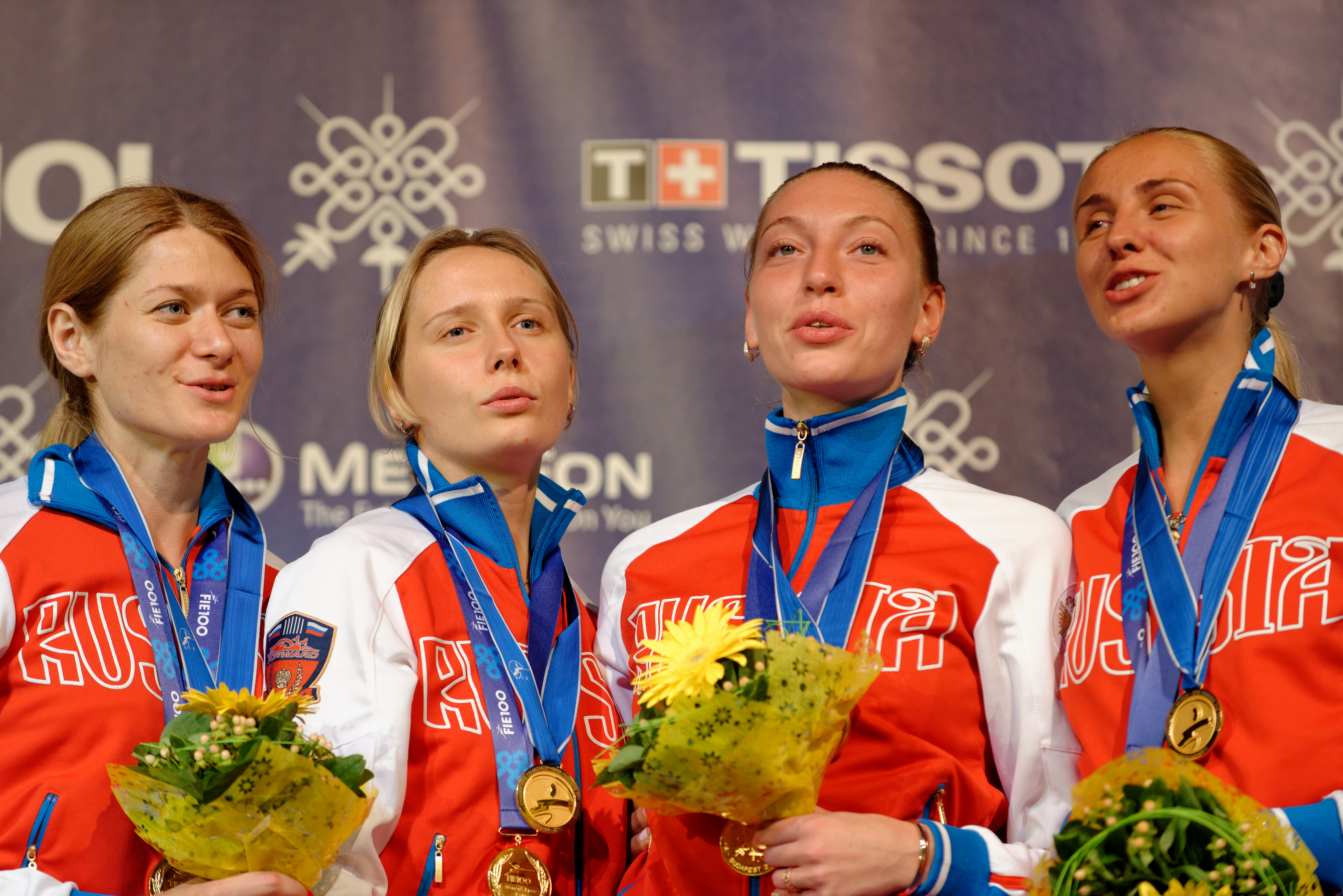 Russia (from left to right, Anna Sivkova, Yana Zvereva, Violetta Kolobova, and Tatyana Andrushina) sing their national anthem on the podium of the women's team épée at the 2013 World Fencing Championships 2013 at Syma Hall in Budapest on 11 August 2013.